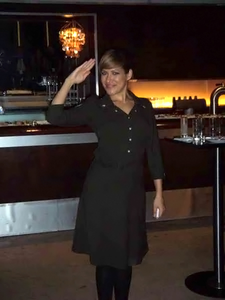 Ex-"No Angels"-Member Vanessa Petruo